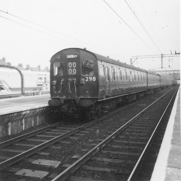 London, Tilbury and Southend line class 302 emu at Barking around 1964 Photo by Stephen Rees